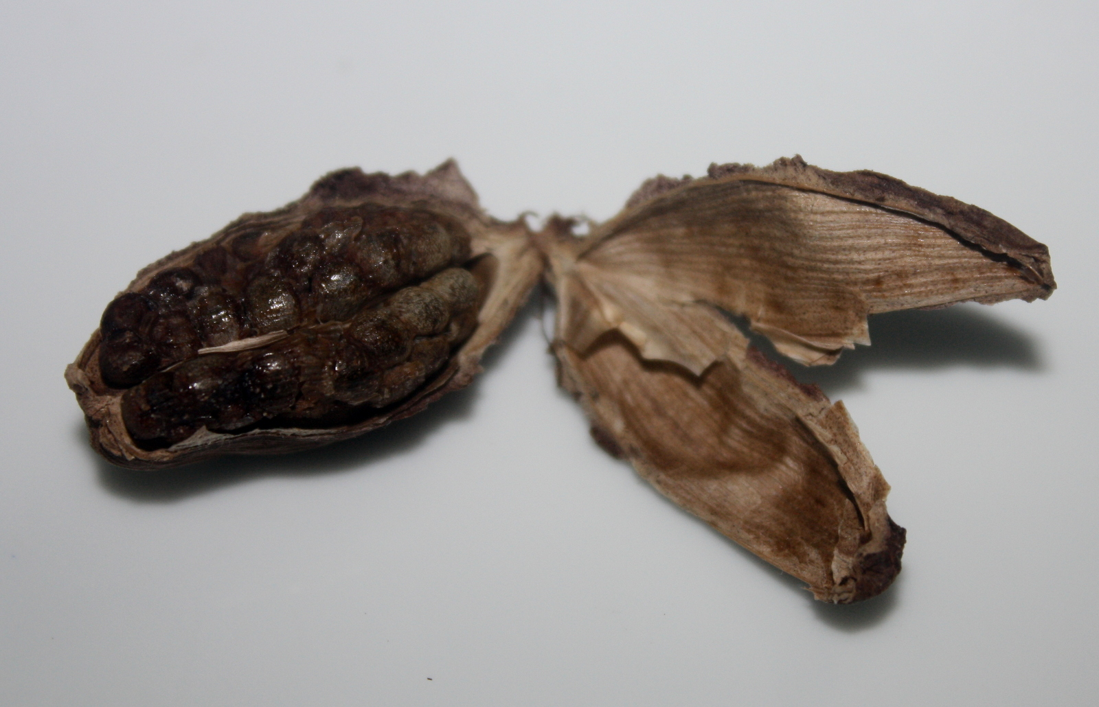 Cardamom (বড় এলাচ),Kolkata, West Bengal, India